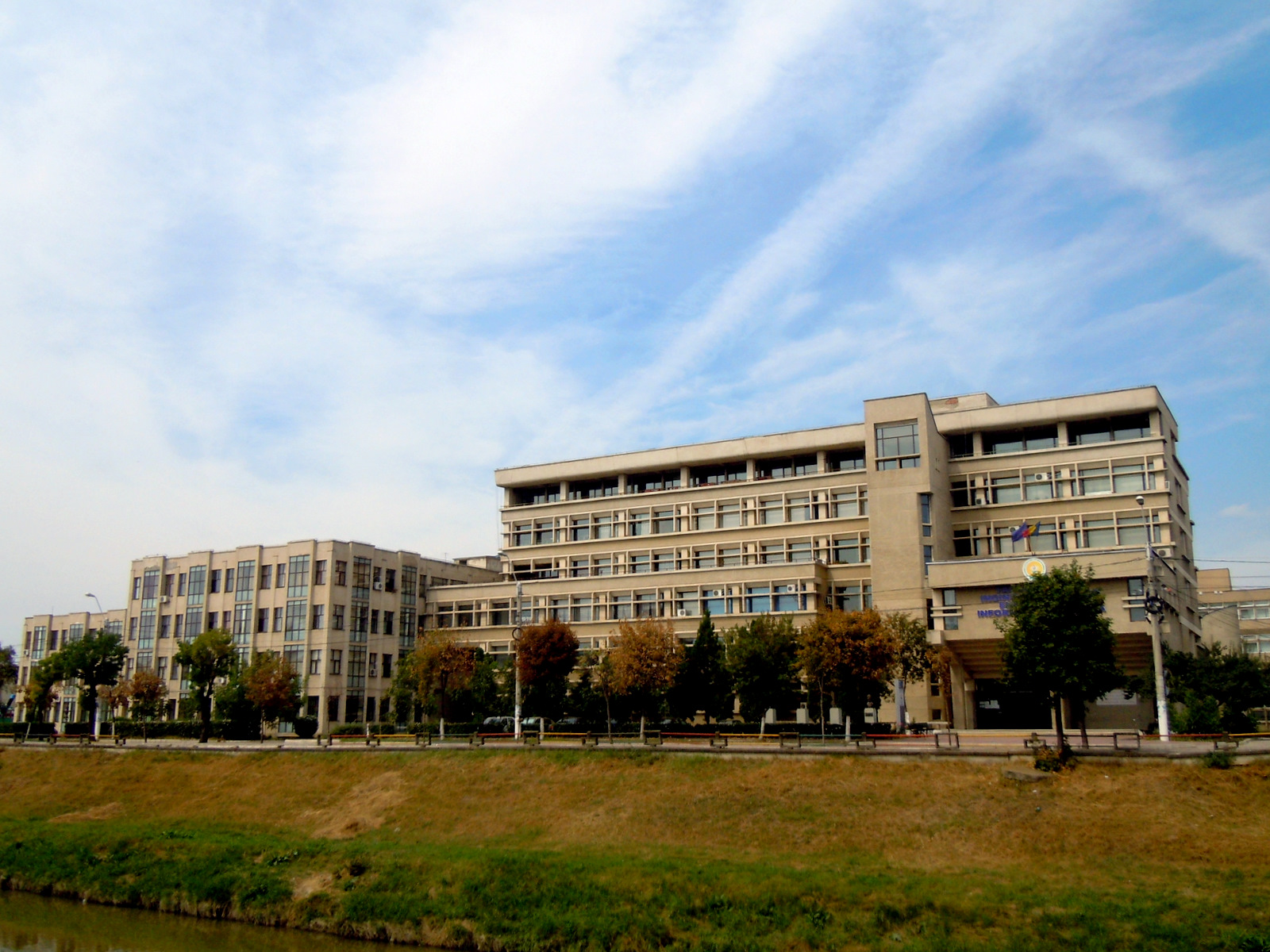 Iaşi , Faculty of Electrical Engineering , Energetical and Applied Informatics of the Technical University „Gheorghe Asachi“ , Iaşi , Romania